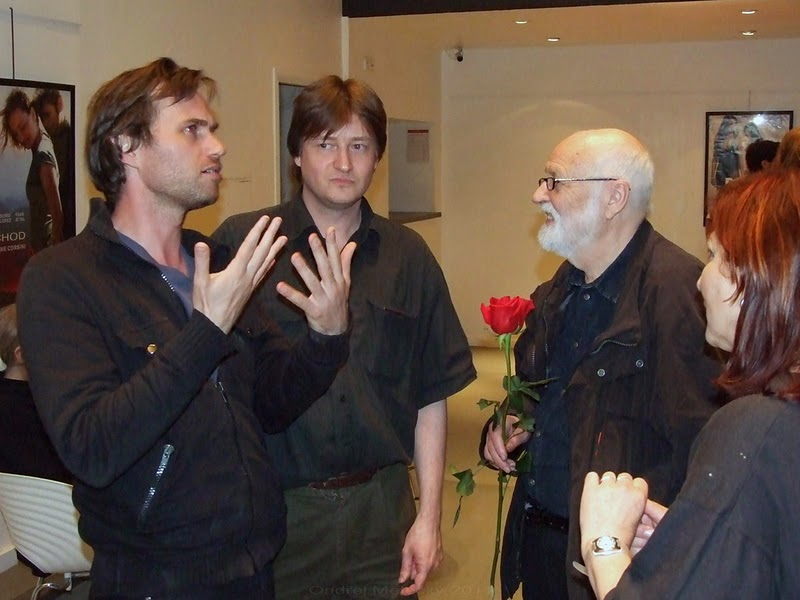 François Sarhan and Jan Svankmajer in Prague